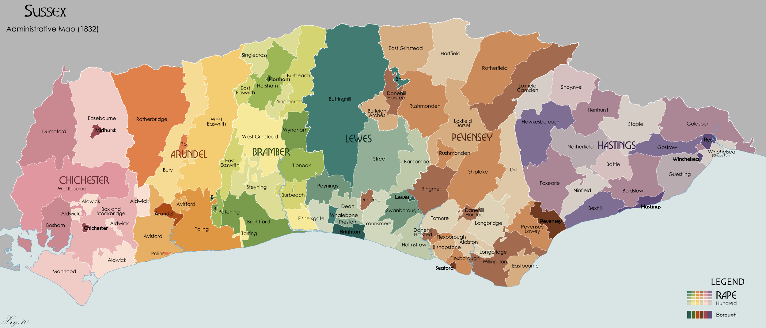 Administrative map of the ancient county of Sussex in 1832. Showing Rapes, Hundreds, Boroughs. Source data on parish boundaries - Kain, R.J.P., and Oliver, R.R. (2001) "Historic parishes of England and Wales: Electronic Map - Gazetteer - Metadata", Colchester: History Data Service. ISBN 0 9540032 0 9. Source data for Boroughs: H.M.S.O. Boundary Commission Report 1832 (courtesy of